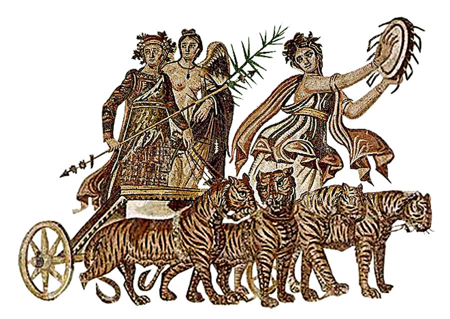 The Triumphant Return of Dionysus (c. 200 A.D.), part of a larger Tunisian mosaic from Sousse.